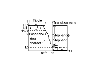 Passband ripple